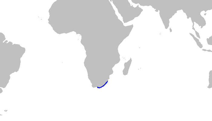 Distribution map for Haploblepharus sp A